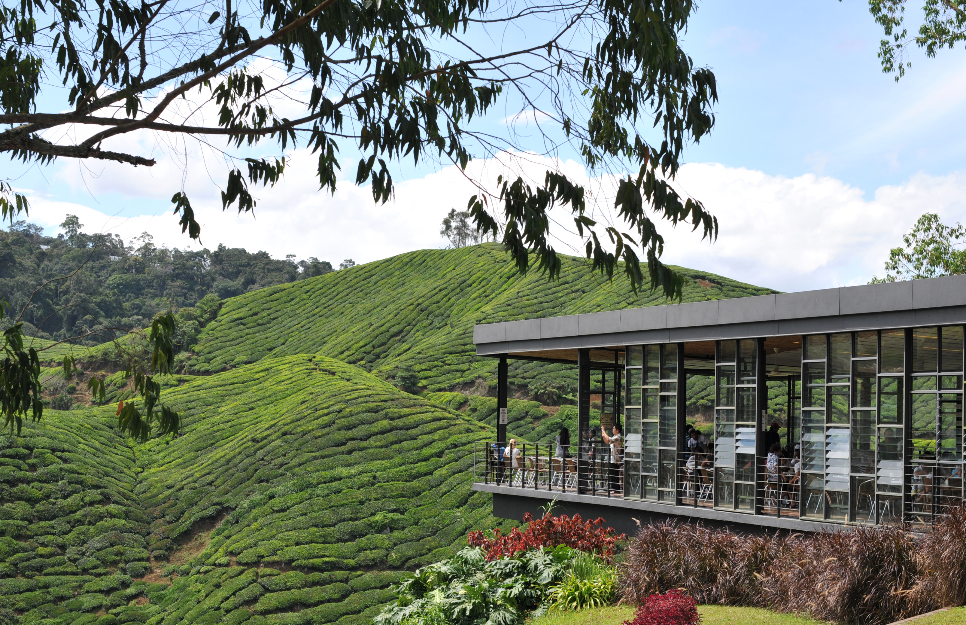 Sungai Palas Tea Plantation, Brinchang, Cameron Highlands, PAHANG, Malaysia